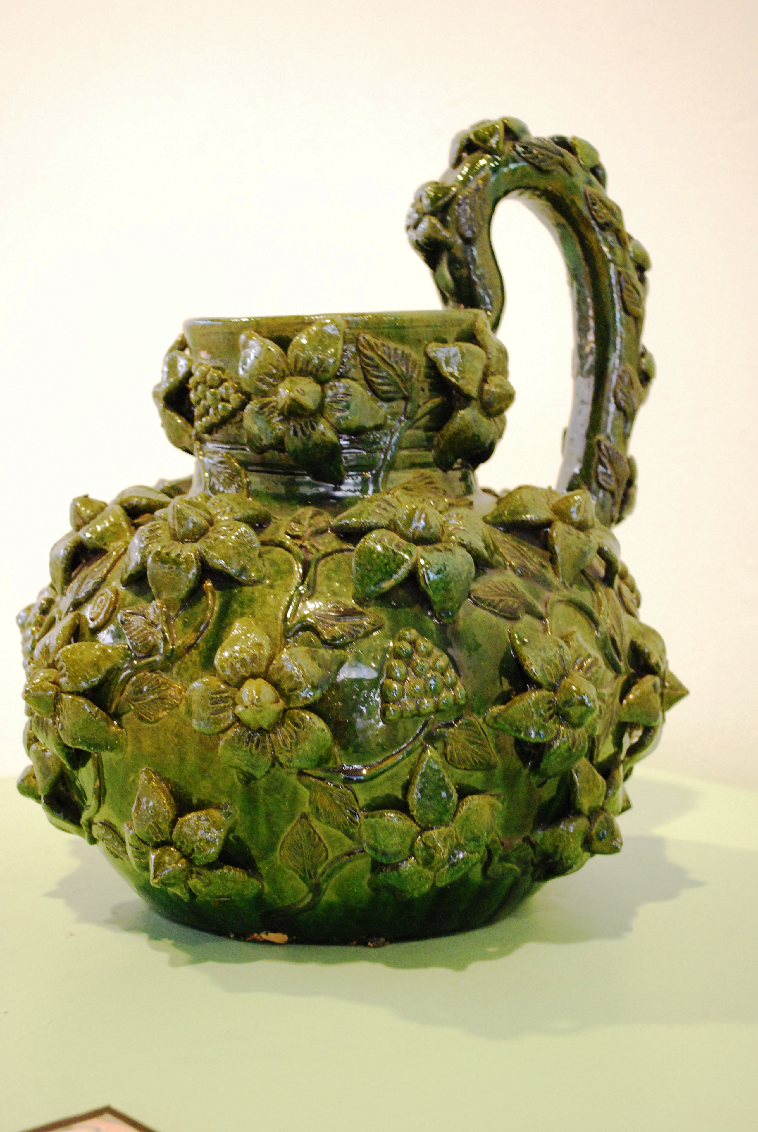 Green glazed ceramic jar by unknown artisan from Santa María Atzompa at the Museo Estatal de Arte Popular de Oaxaca in San Bartolo Coyotepec, Oaxaca, Mexico